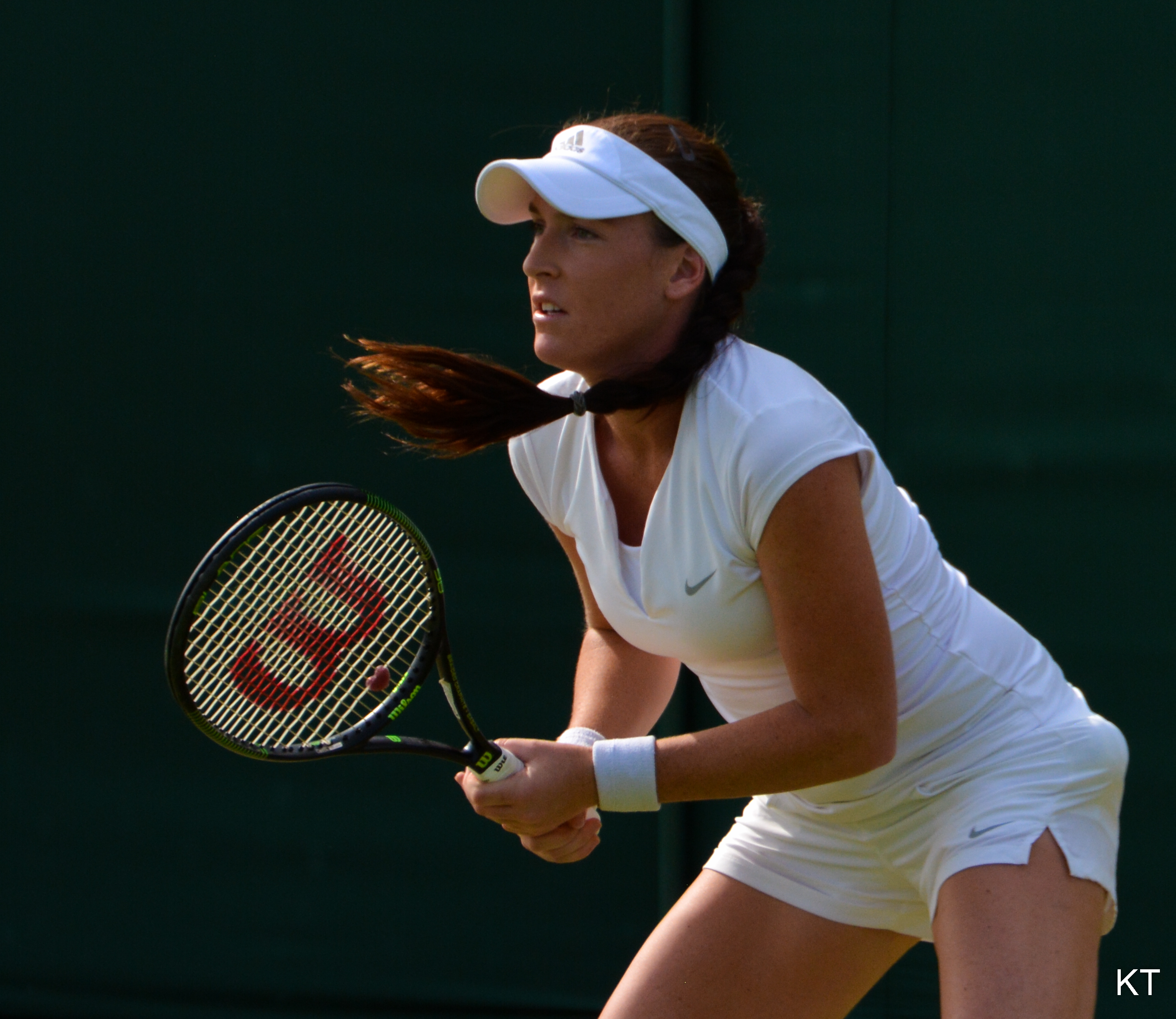 Day 5 of Wimbledon 2015.